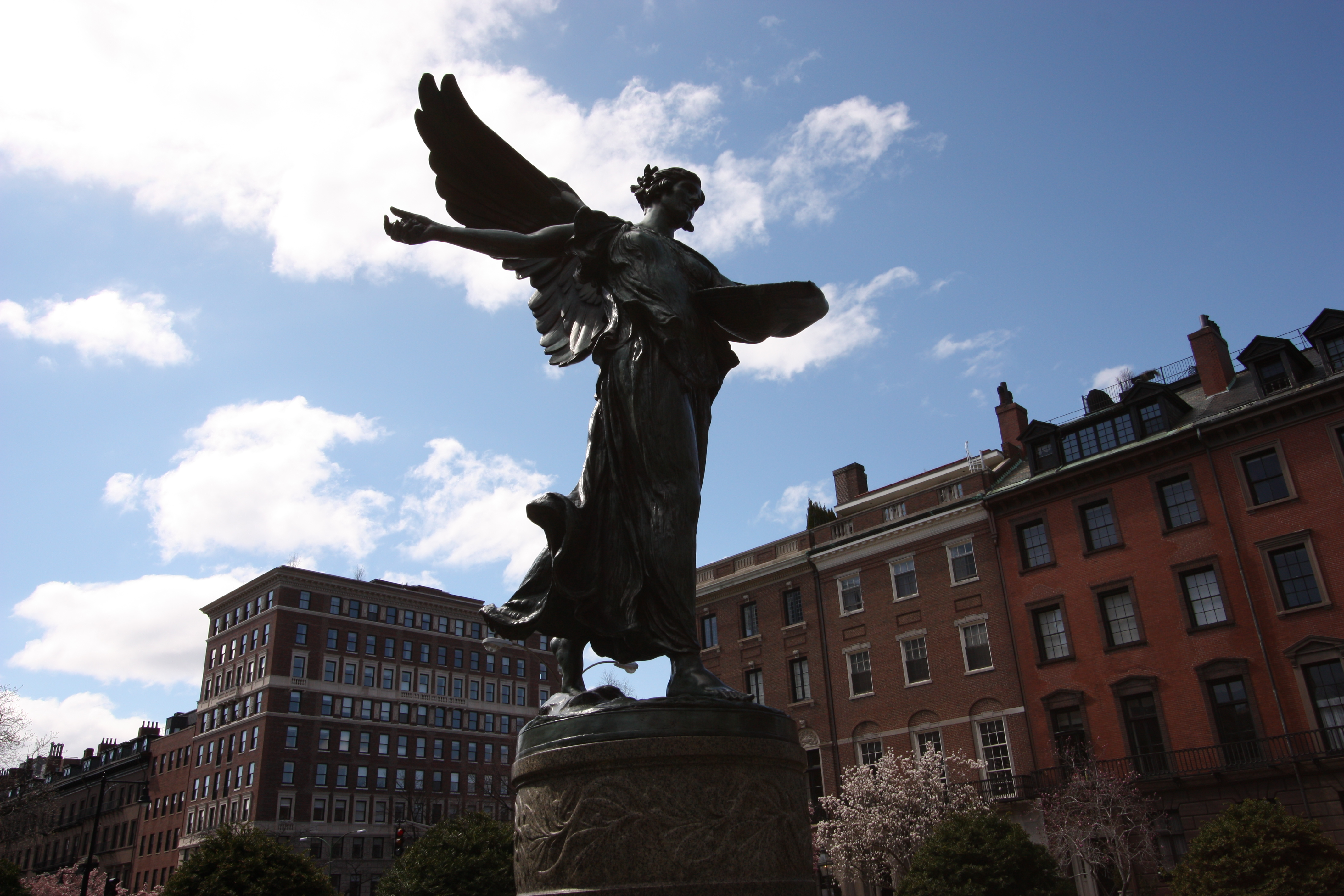 "Angel of the Waters" in memory of George Robert White. Part of the Wikipedia Takes Boston scavenger hunt. Sculpture by Daniel Chester French (1850-1931).